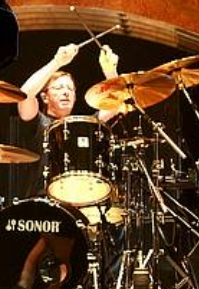 Phil Rudd at the Tacoma Dome in Tacoma, Washington, November 30, 2008.